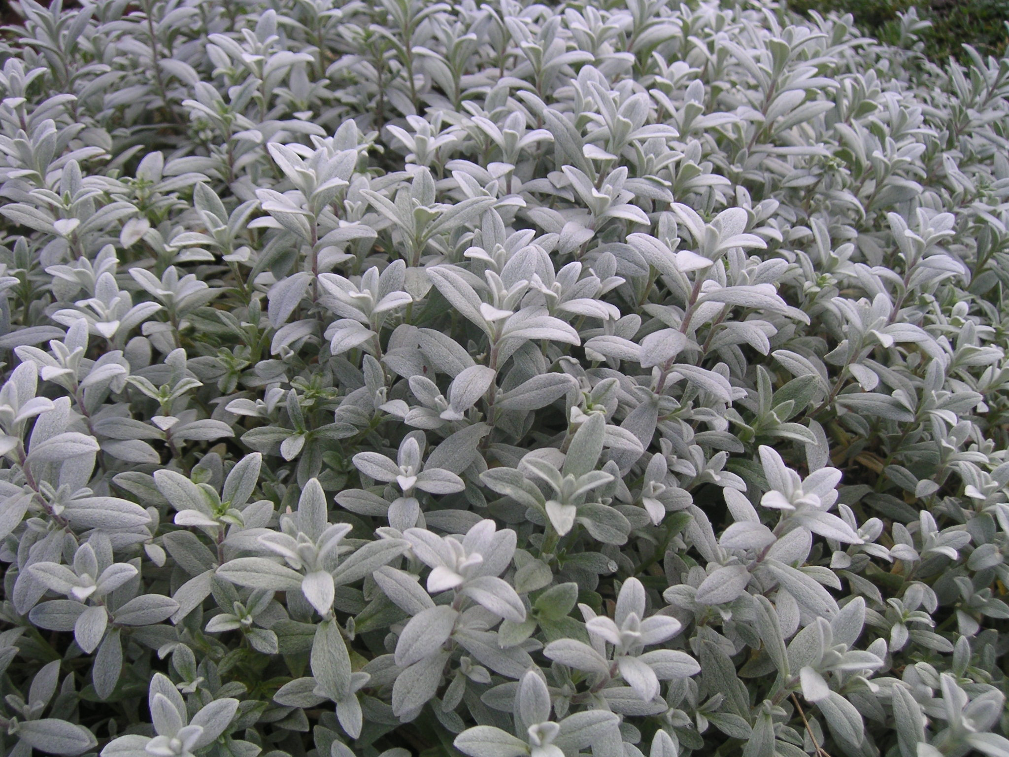 Habit of Cerastium biebersteinii at Botanical Garden Krefeld, Germany.